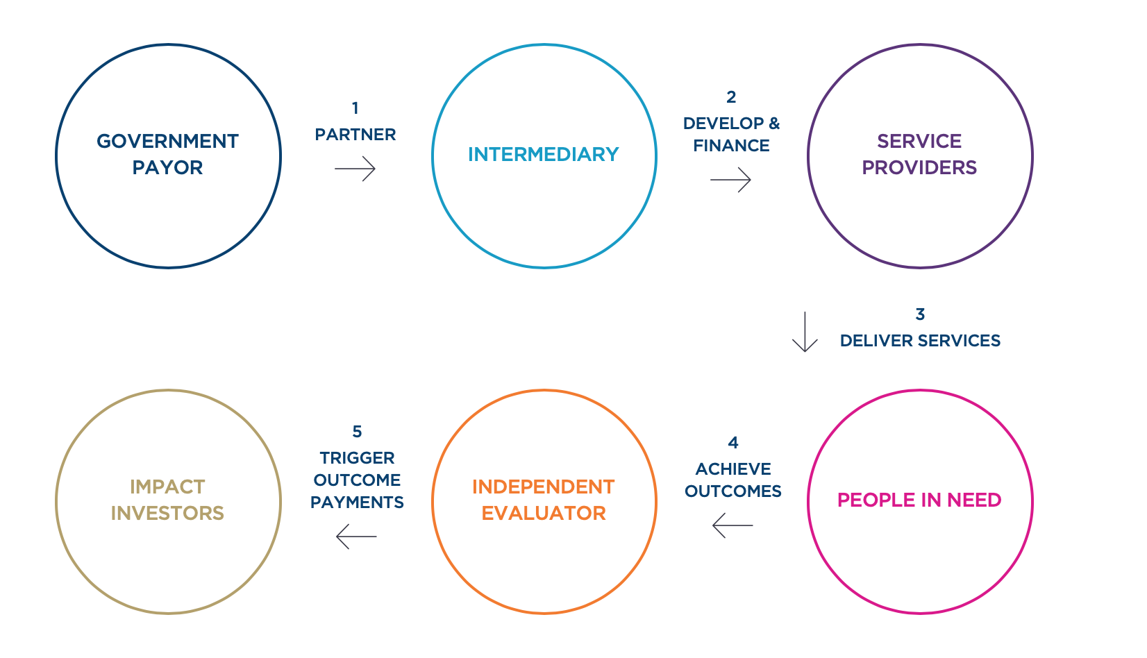 Diagram describing functioning of SIB process